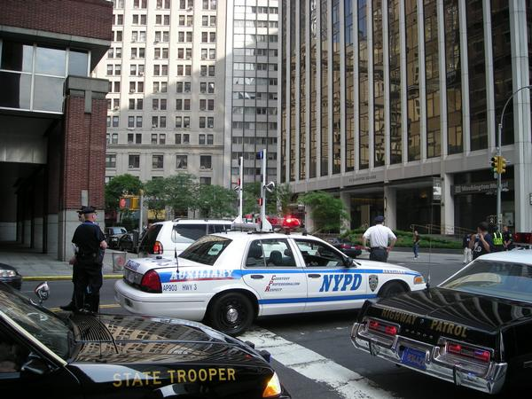 NYPD Auxiliary Highway Patrol Ford Crown Victoria police car photographed in NYC.